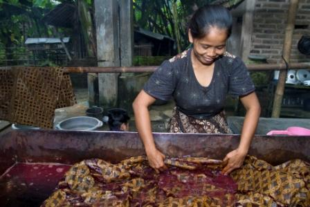 A batik crafter soaks waxed cotton in liquid dye at an Australian-supported workshop that trained more than 85 female batik artists how to improve their livelihoods through microfinance and better business practices.